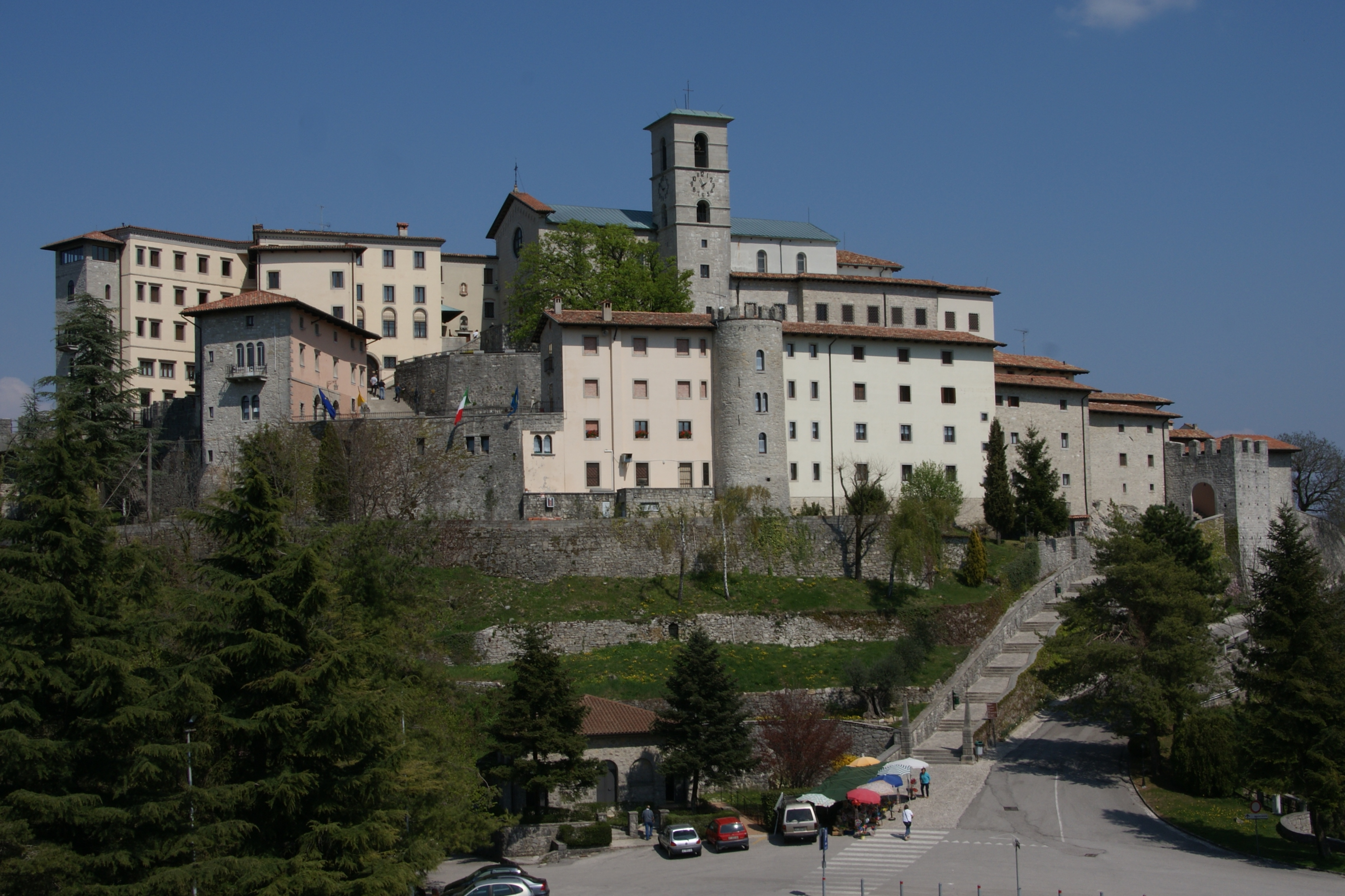 Castelmonte near Cividale del Friuli, Friuli-Venezia Giulia